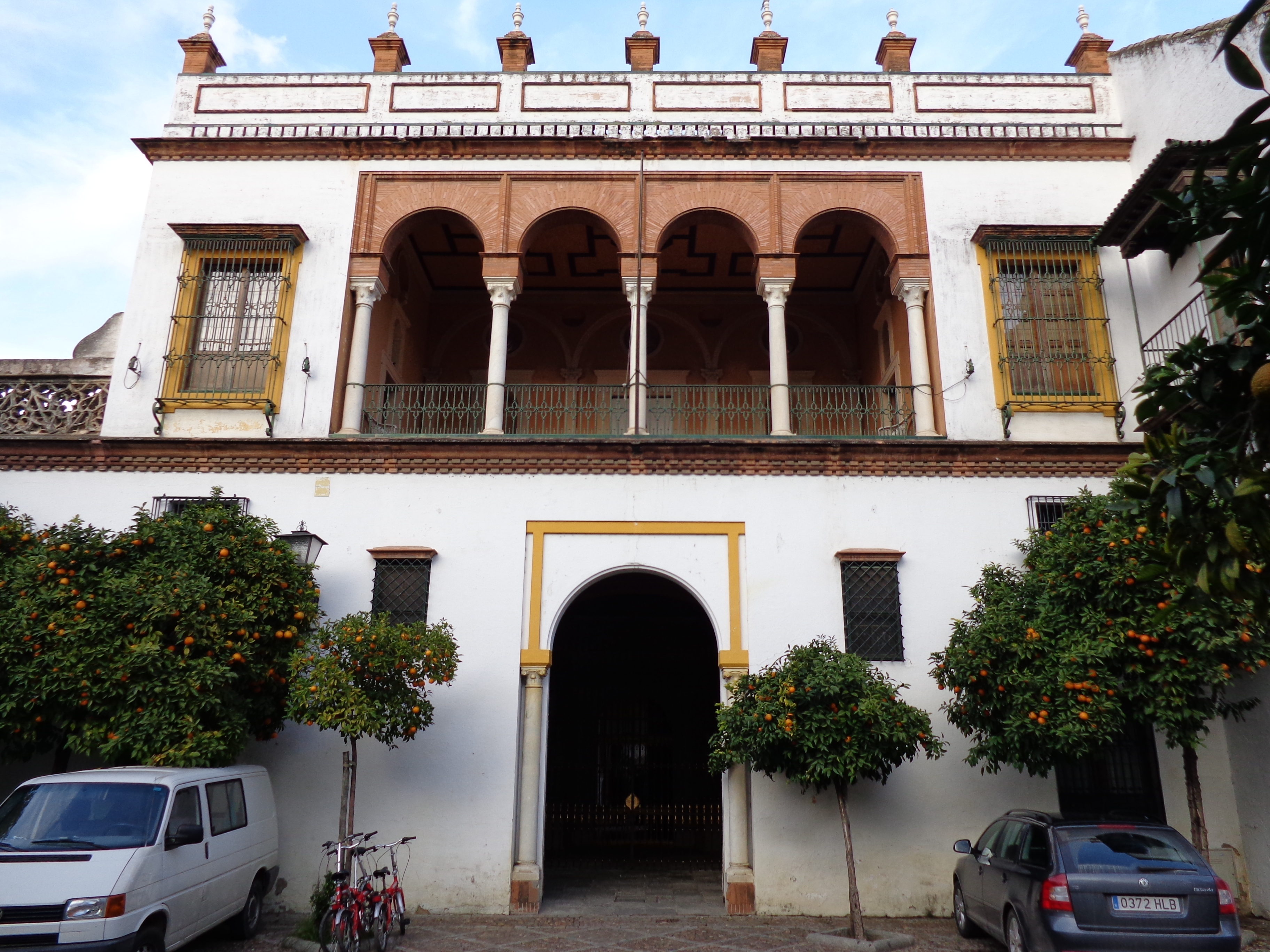 Casa de Pilatos, Seville